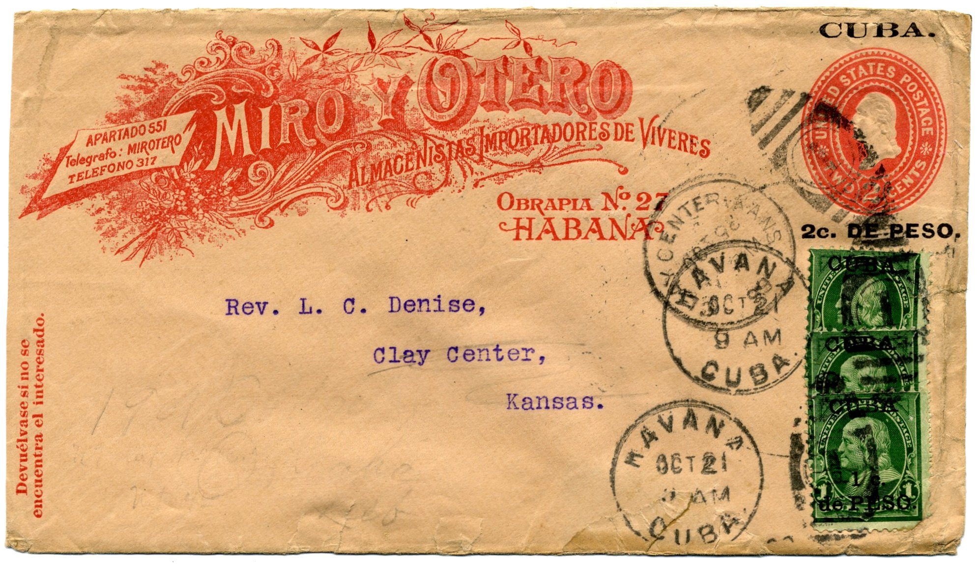 Postal stationery envelope of Cuba, printed by the US government, with additional franking of US provisional stamps for Cuba and special request corner card printed for Miro y Otero.